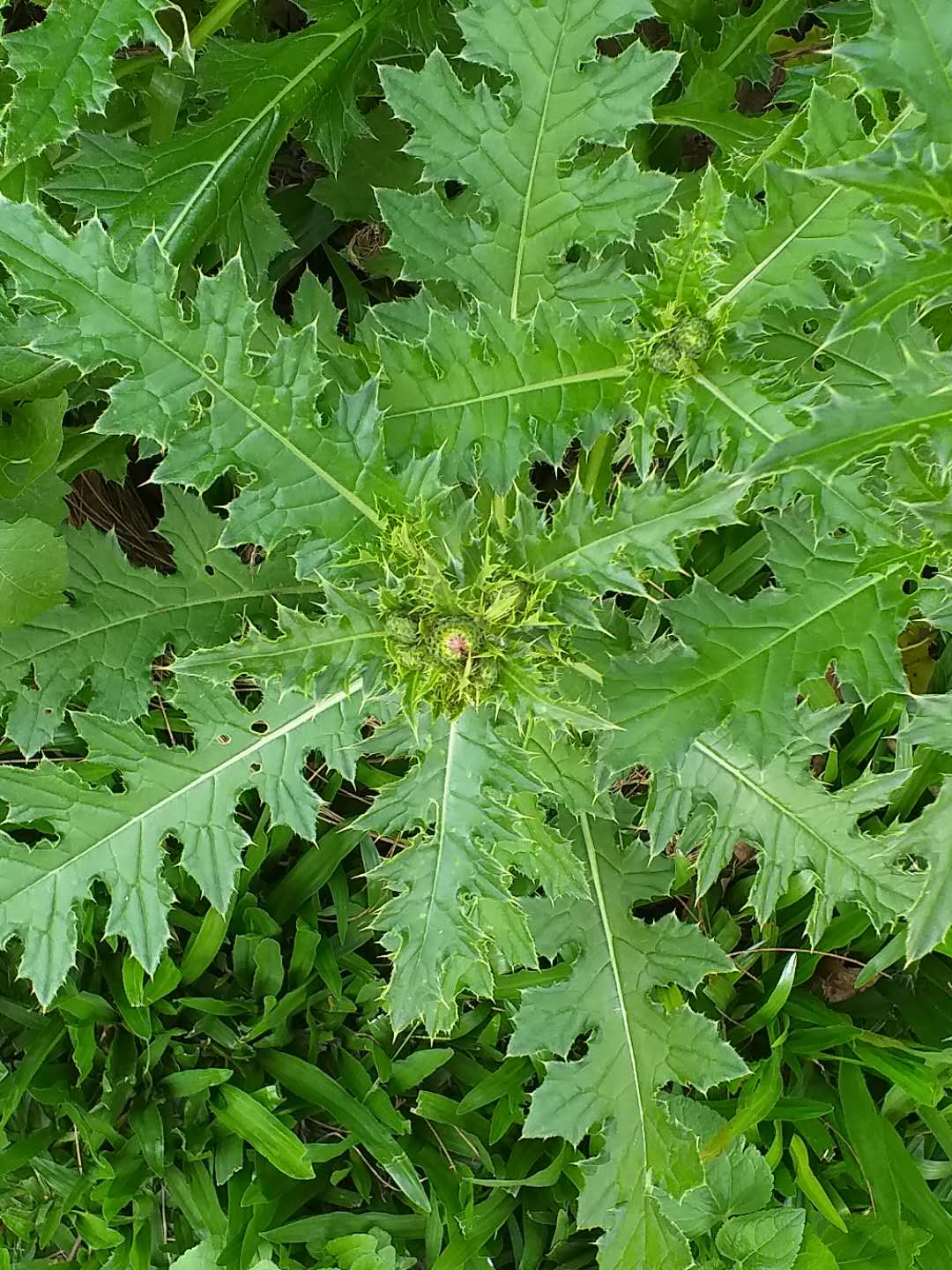 Leaves of Cirsium japonicum var. takaoense. 2018 Taichung World Flora Exposition, Taiwan.